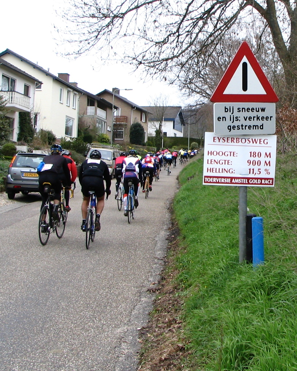 Eyserbosweg in Eys during the amateur version of the Amstel Gold Race